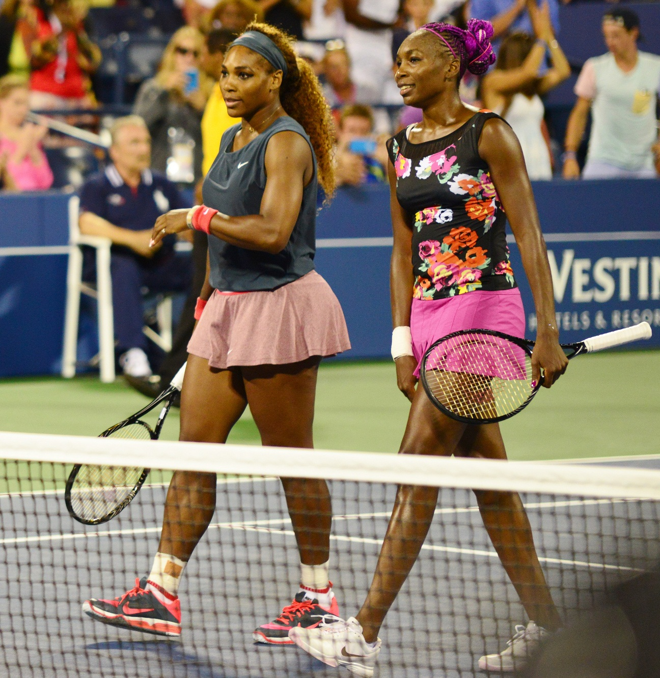 Serena and Venus Williams during their first round of doubles in the 2013 US Open.